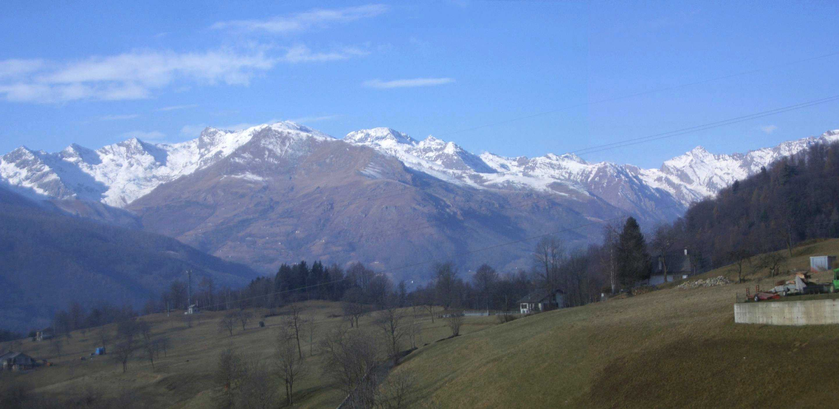 Landscape: view of the mountains from Brosso